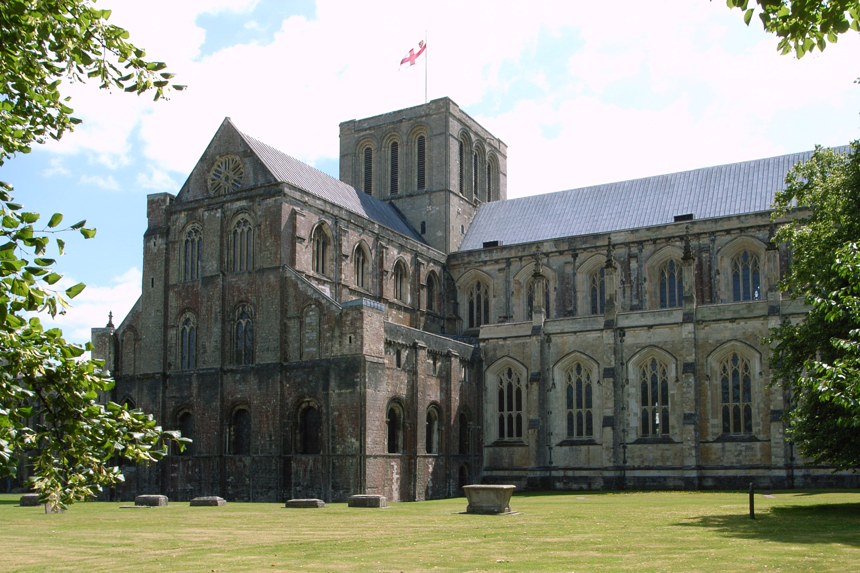 Winchester Cathedral, Winchester, England. View from the north west.